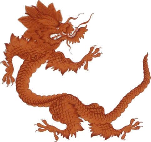 Motif Ming Dragon